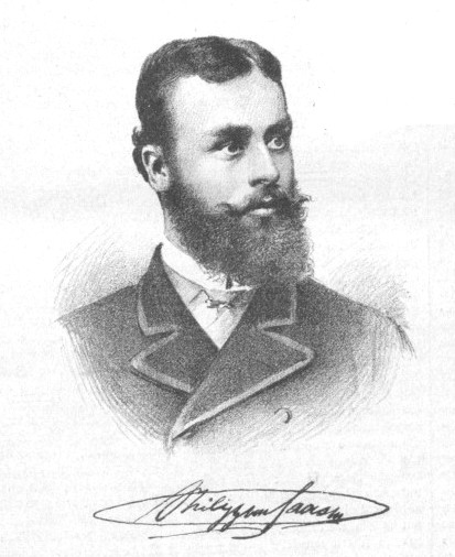 Portrait of Philipp Haas von Teichen (1859-1926), Austrian entrepreneur, owner of Philipp Haas & Söhne.